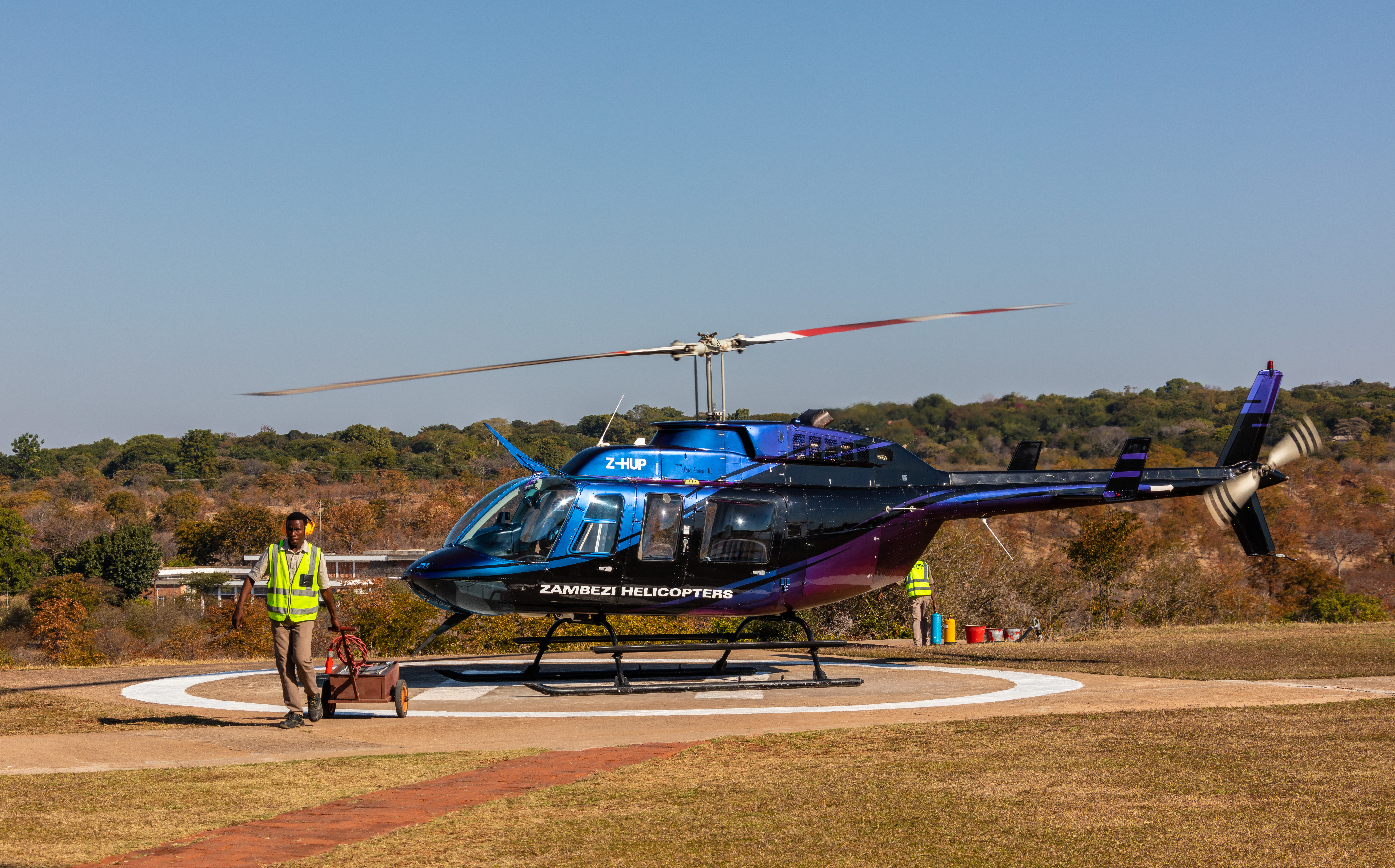 BELL 206L-3 Longranger helicopter, Victoria Falls, Zimbabwe